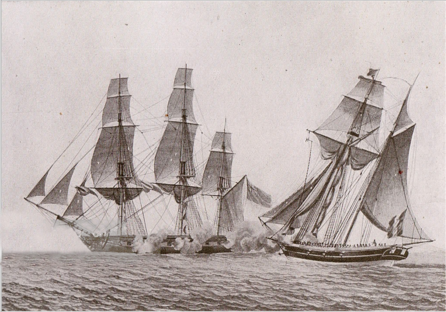 French privater Jean Bart boarding the British merchantman Eagle on 9 February 1810